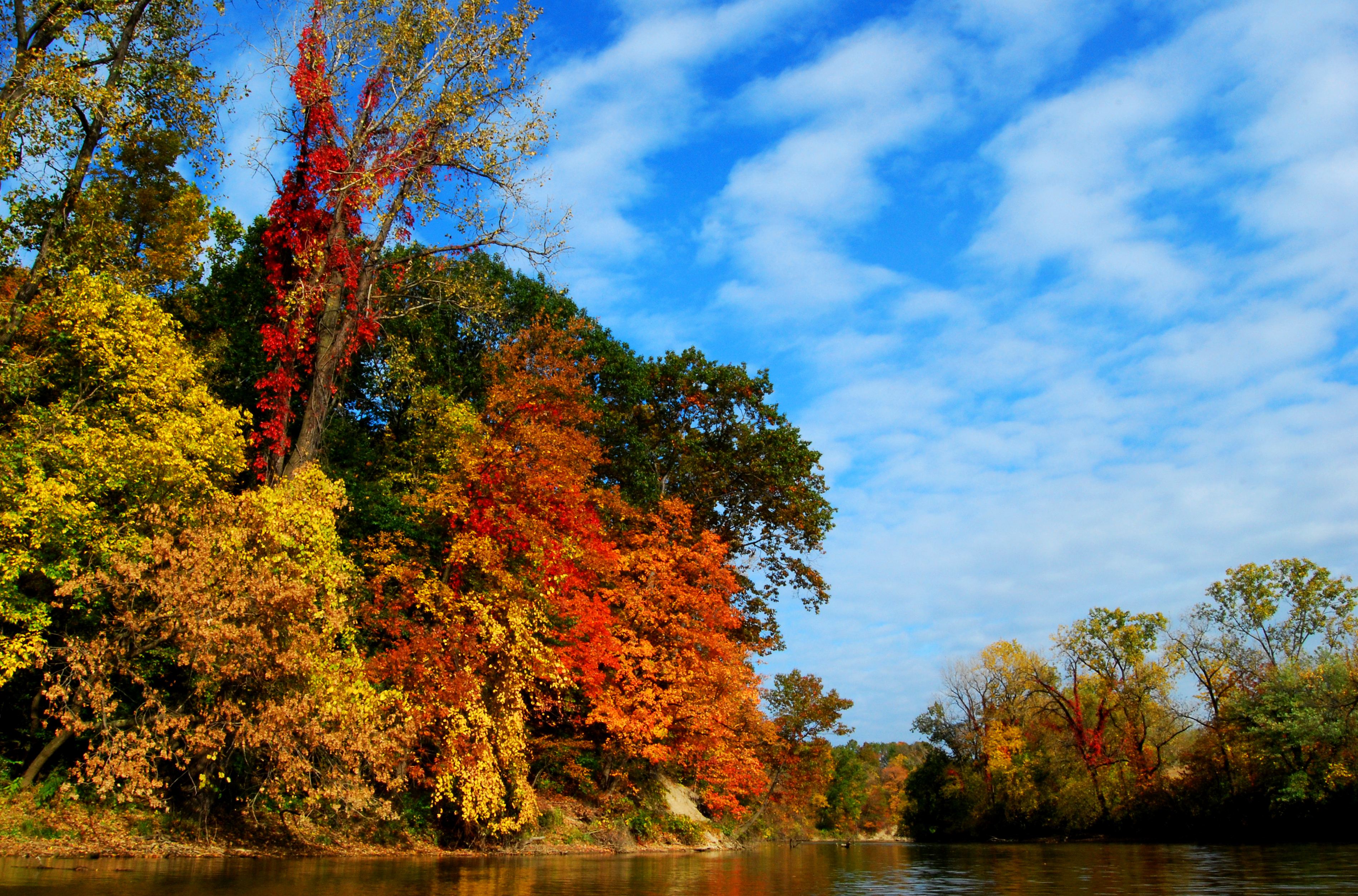 Leaves changing color in Lorain, Ohio